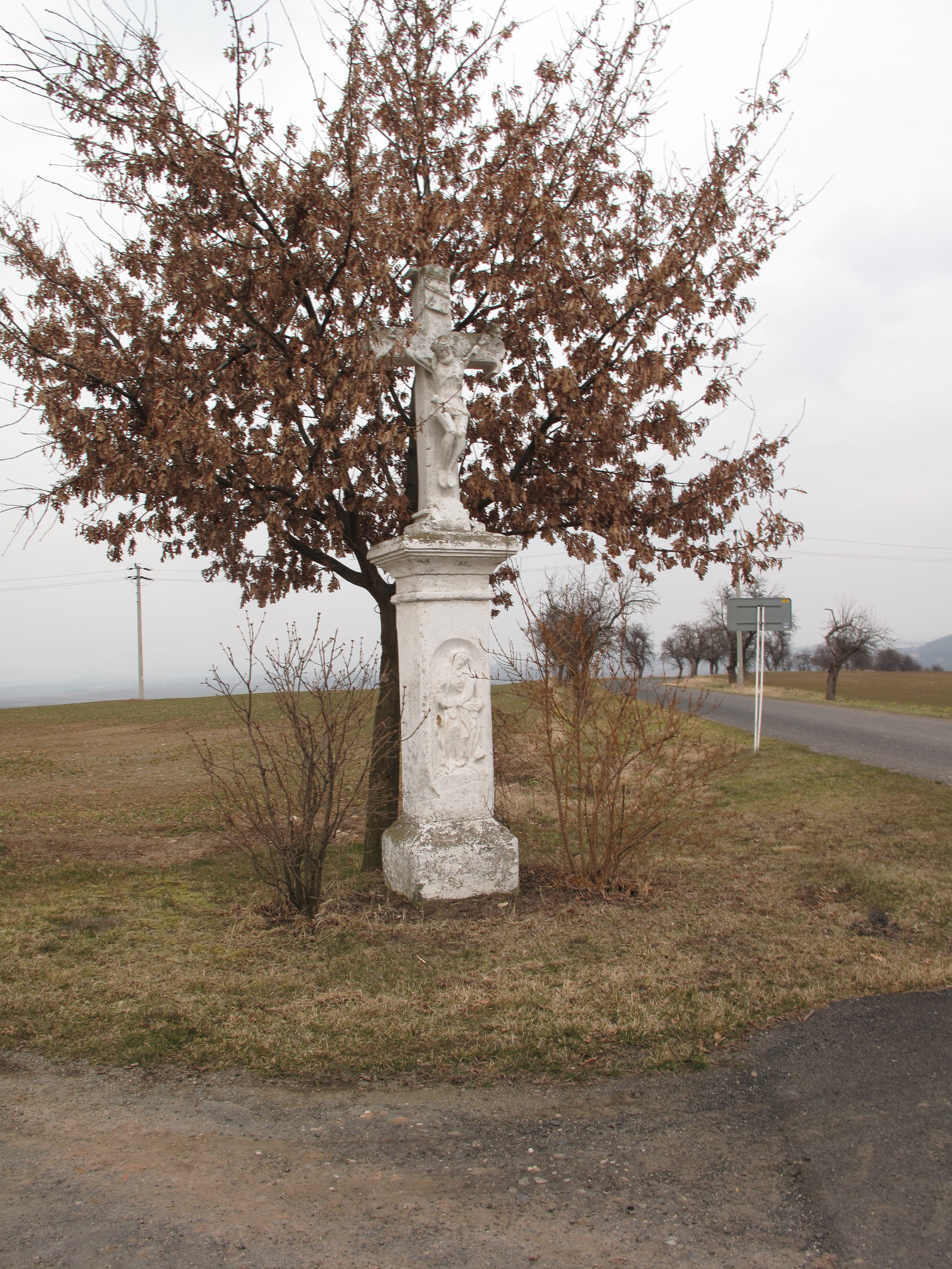 Wayside shrine in Markvarec village (Hřivice municipality), Louny District, Czech Republic.